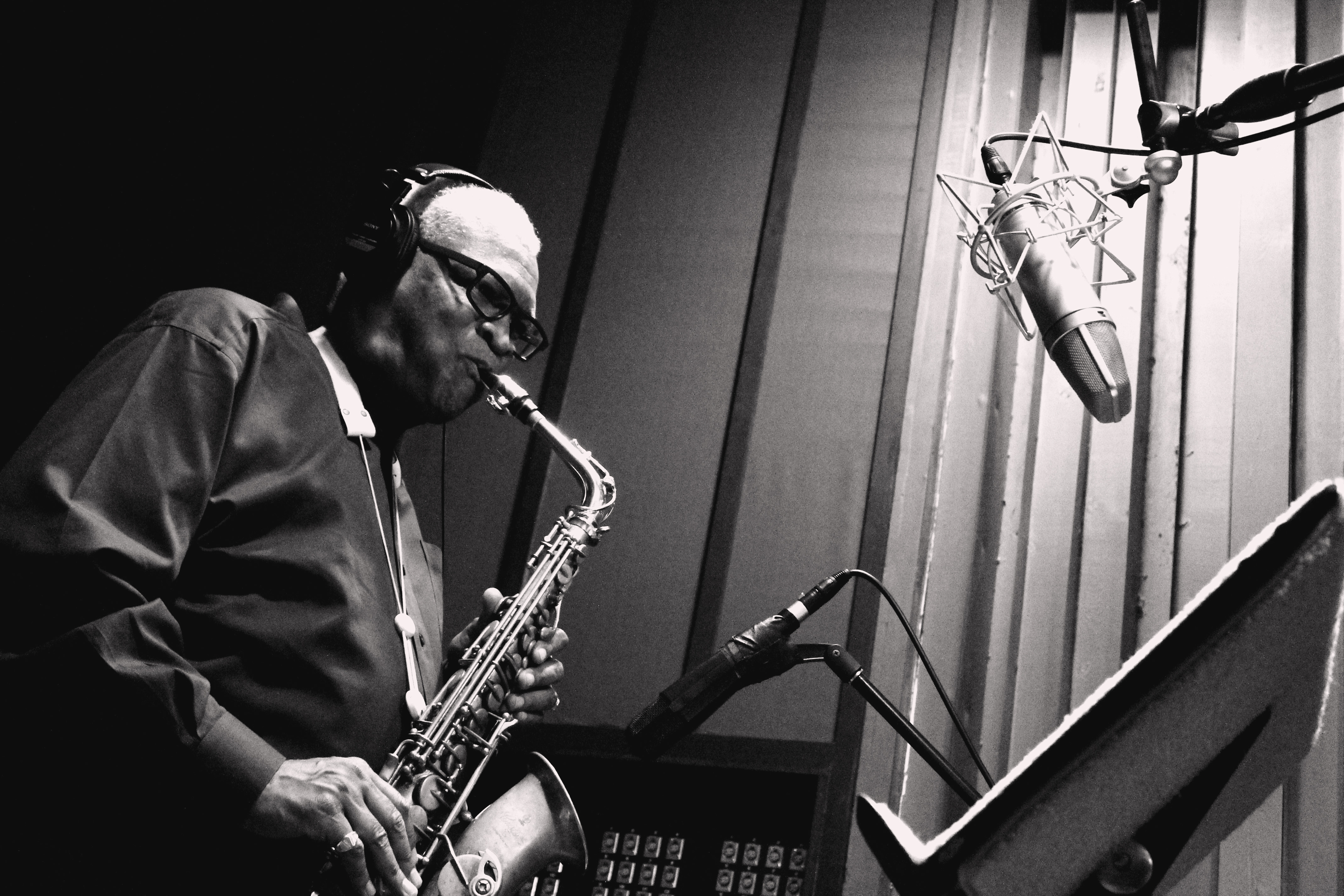 Bobby Watson, photographed by Diallo Javonne French.